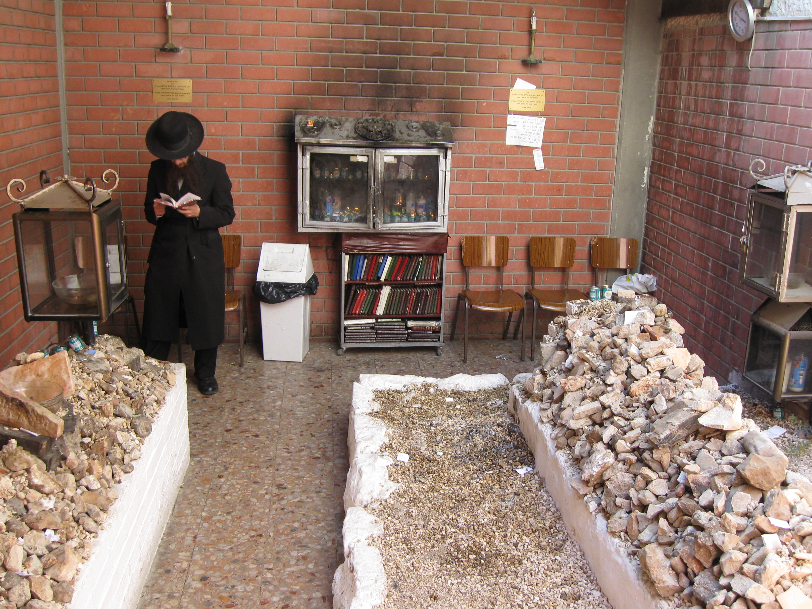 Photo of the graves of Grand Rabbi Avraham Mordechai Alter (the Imrei Emes), right, and his son, Grand Rabbi Pinchas Menachem Alter (the Pnei Menachem), left, in an ohel adjacent to the Sefas Emes Yeshiva in downtown Jerusalem, Israel.